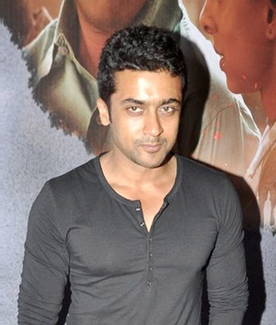 Actor Suriya at the special screening of the film Ceylon (Inam in Tamil) in 2013.